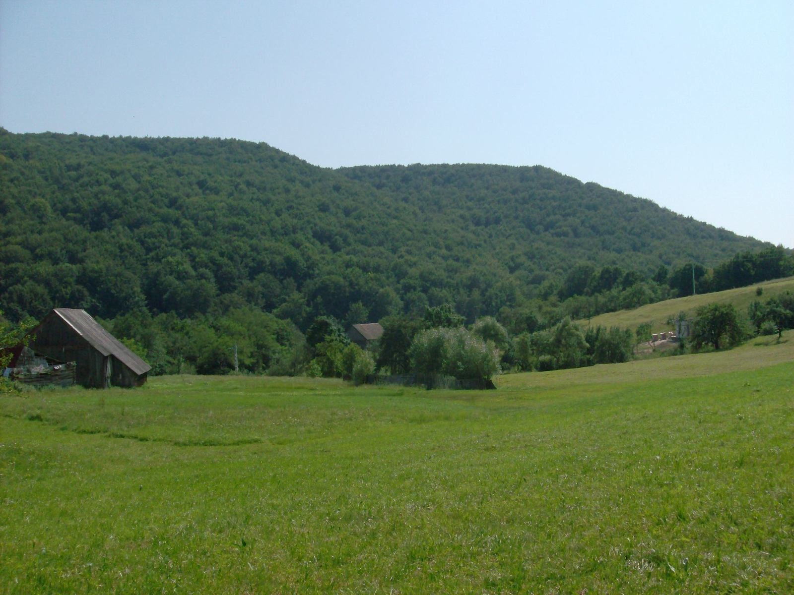 Landscape from Baile Chirui, Harghita County, Romania